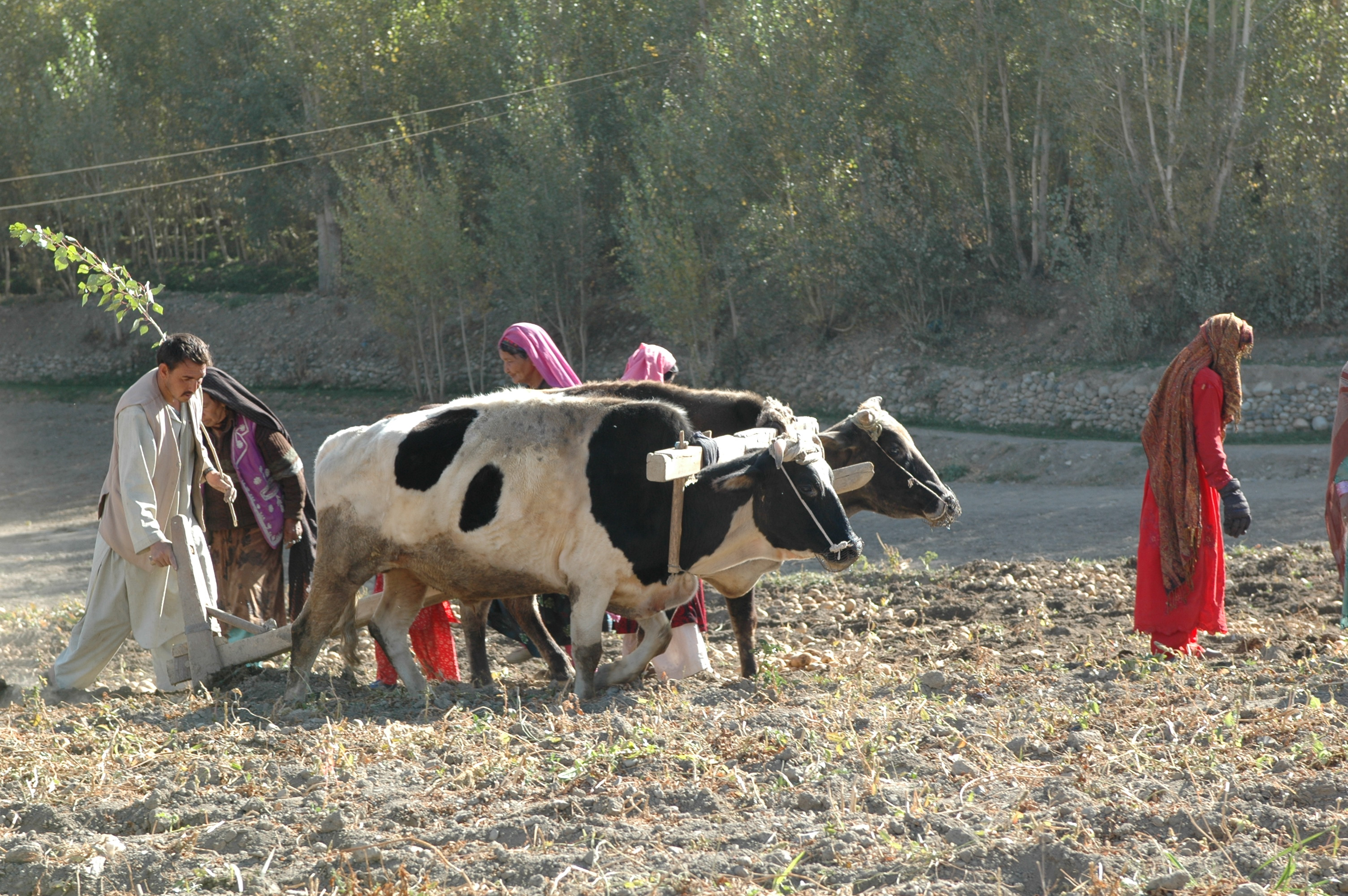 Potato Farming in Afghanistan.